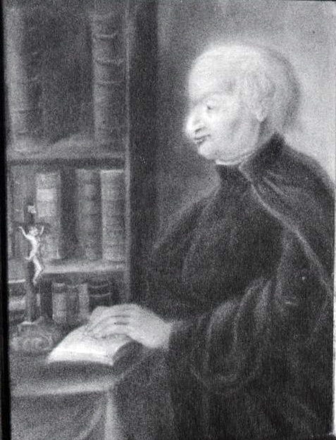 Pater Matthäus Vogel S.J. (1695-1766), Schriftsteller